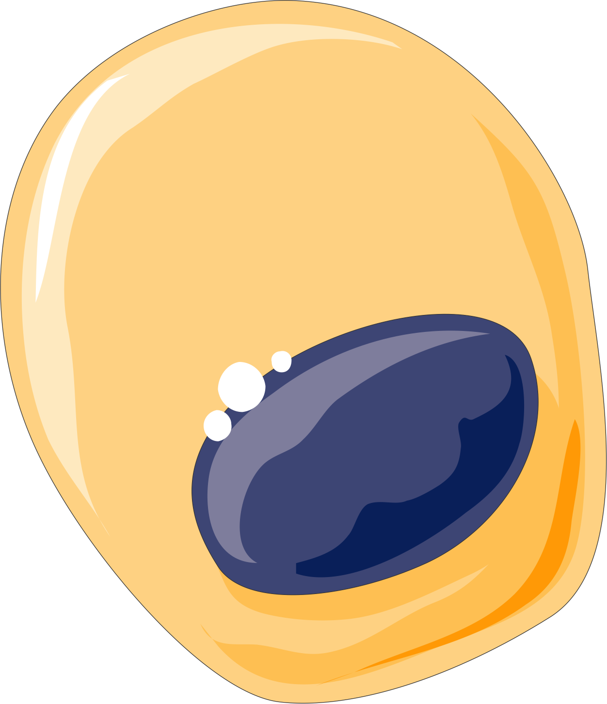 Bone structure - Bone forming cells - Osteoblasts